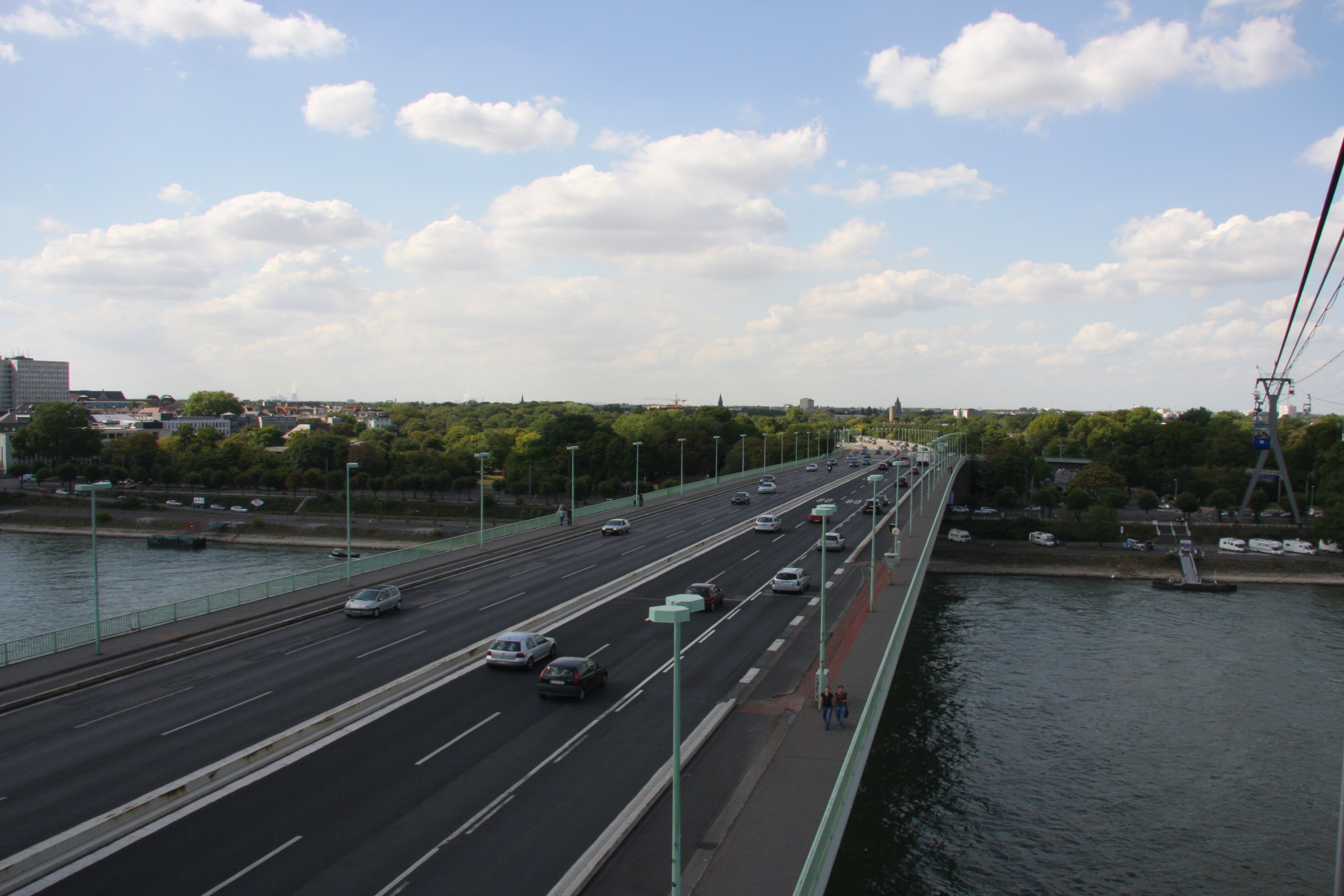 The Zoobrücke (Zoo bridge) over the Rhine in Cologne (Germany). View out of the Rheinseilbahn.